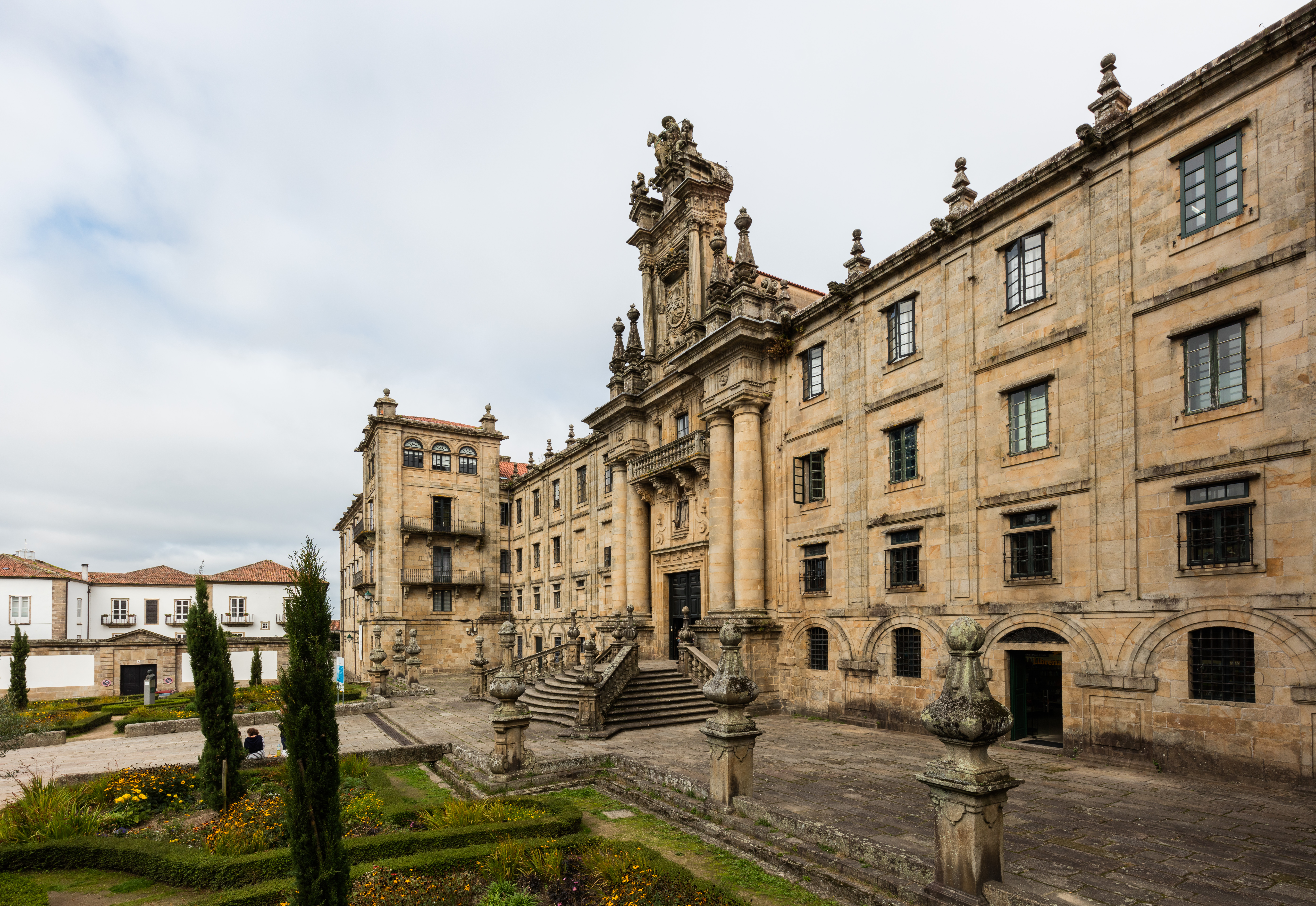 San Martin Monastery, Santiago de Compostela, Spain